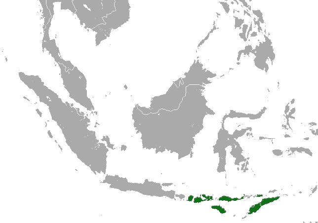 Sunda Flying Fox (Acerodon mackloti) range